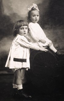 Standing two children (left to right: Kirill and Natalia) in Tashkent province, Soviet Union (now Uzbekistan). This photograph taken in 1919.